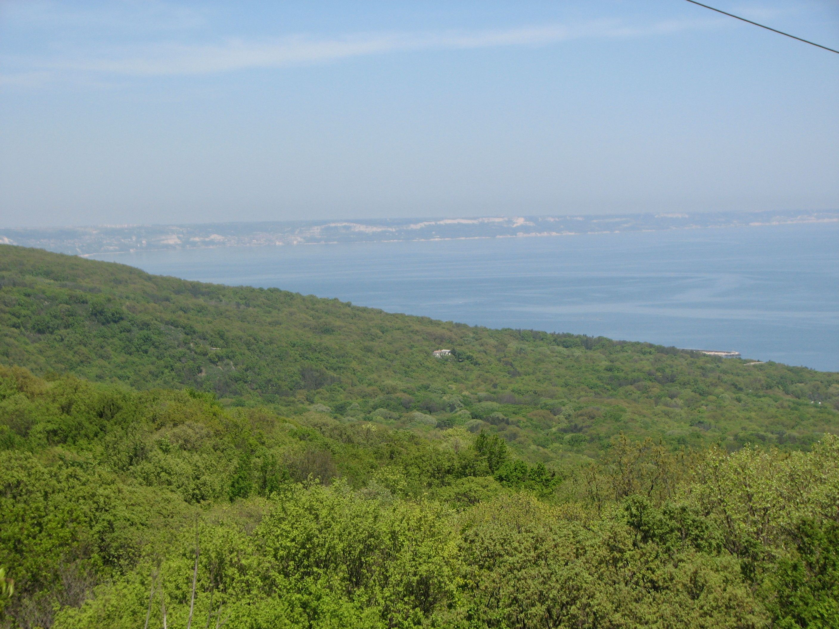 Golden Sands Nature Park - Varna, Bulgaria